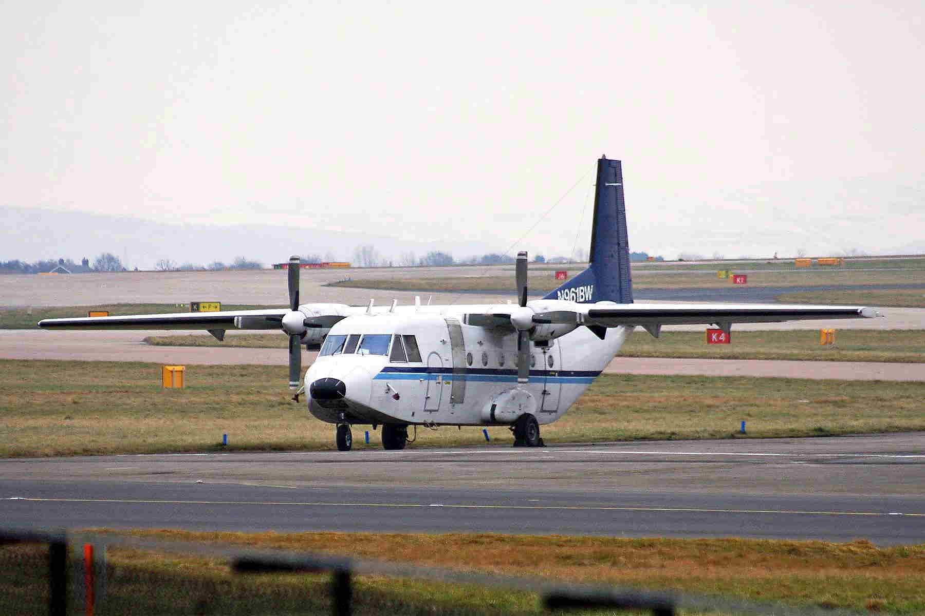 On it's way back from Afghanistan to the USA... Nudge Nudge, wink wink, say no more!!!